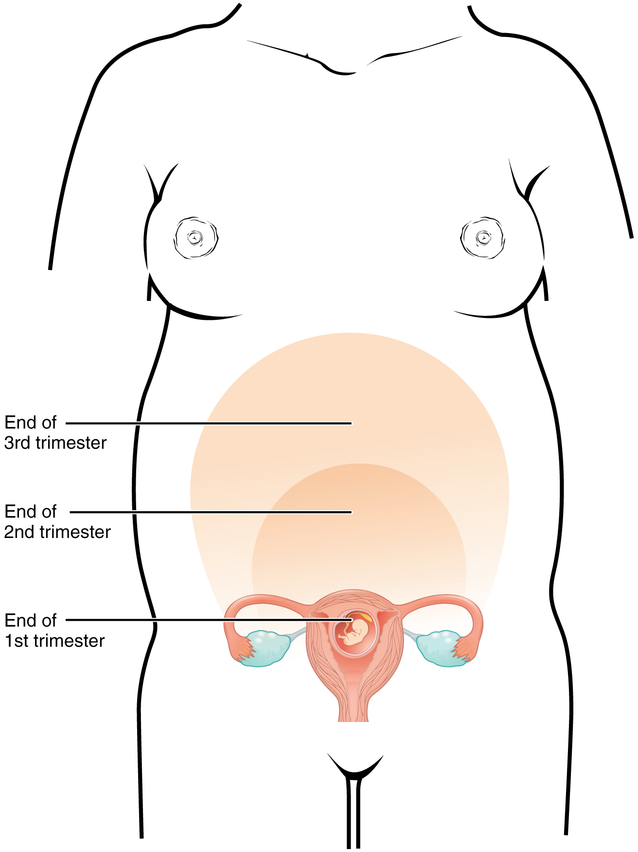 Illustration from Anatomy & Physiology, Connexions Web site. Jun 19, 2013.